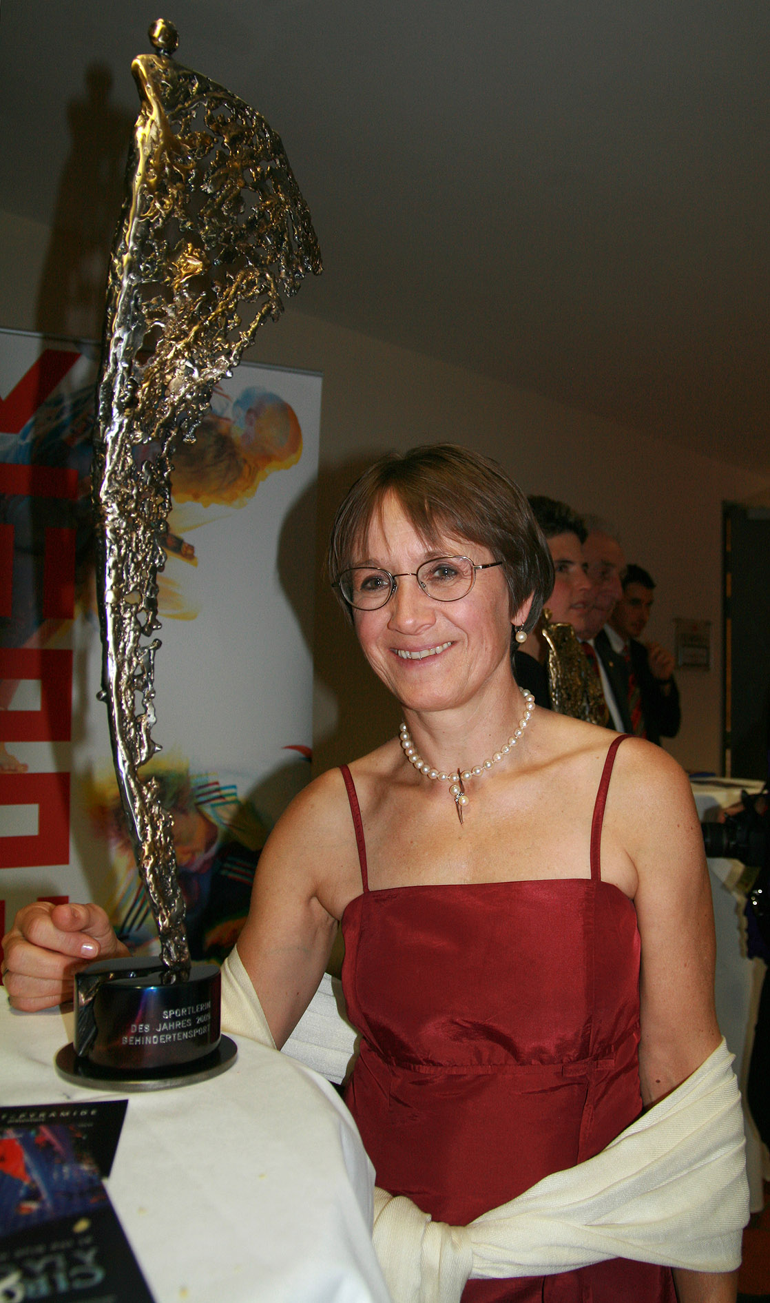 Sabine Gasteiger, Austrian Sportspersonality of the Year (disabled sports) 2009.